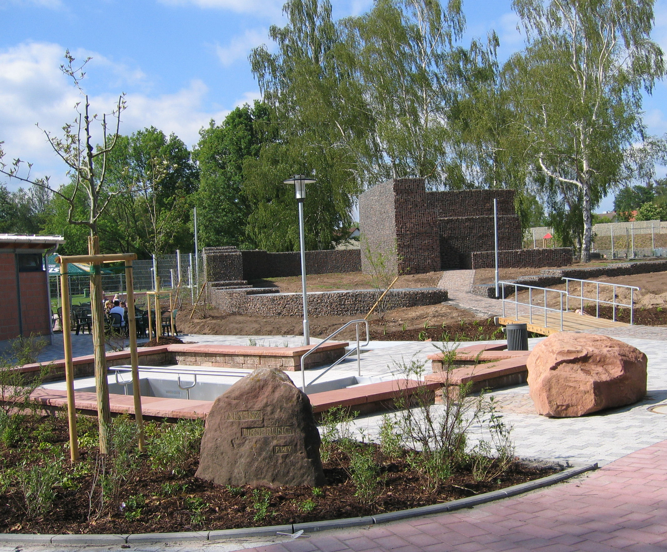 view of Alsenborn, Germany